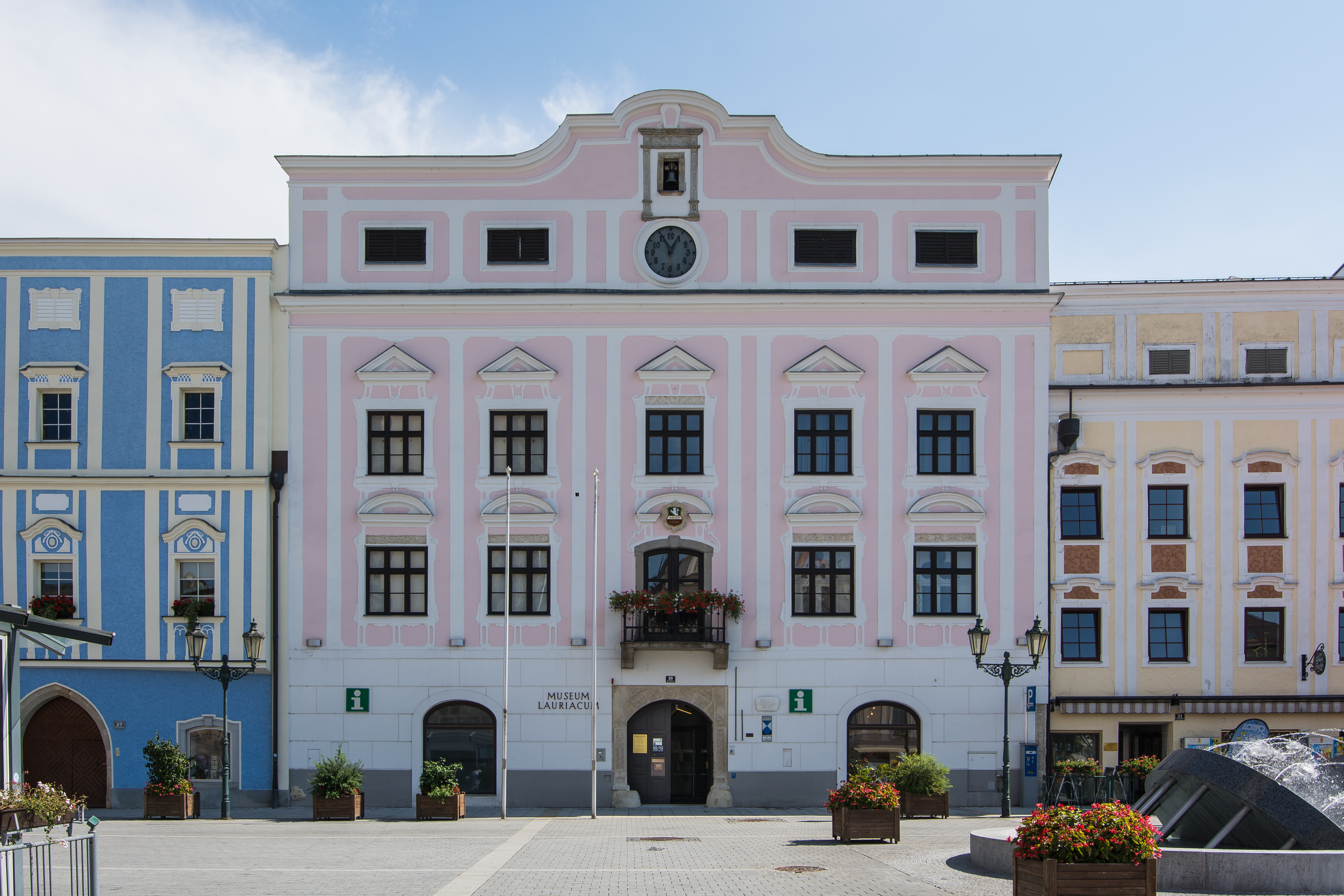 This building houses the Museum Lauriacum with remarkable archeological artefacts from the roman times in Enns. Formerly it was the mint and town hall of Enns.